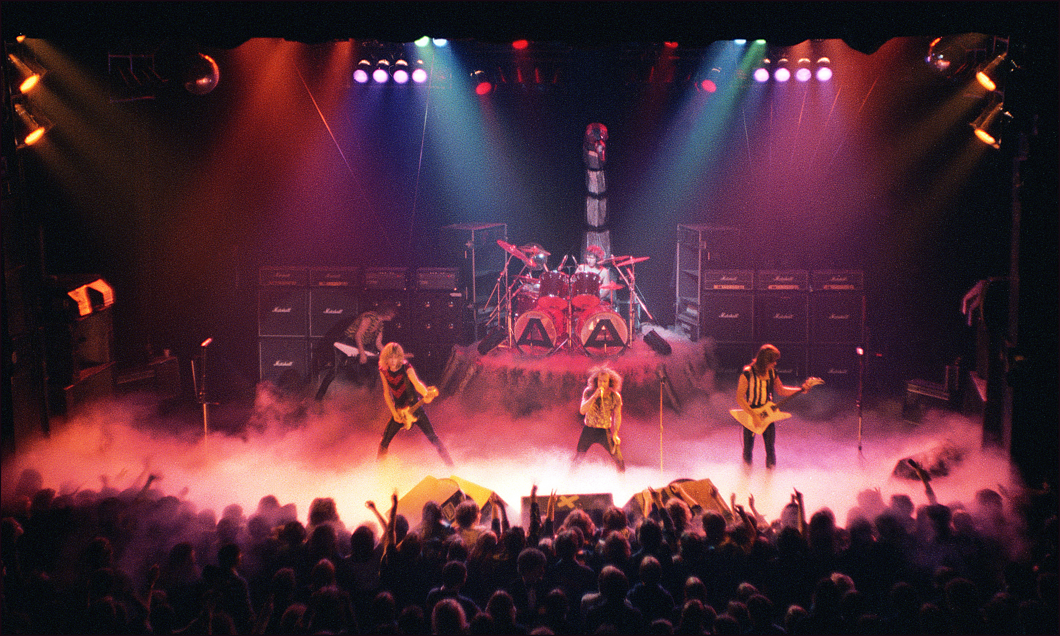 Scorpions performing live at Manchester Apollo (1980).